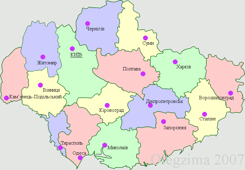 map of division of Ukrainian SSR (Ukraine) in 1939 - 1940